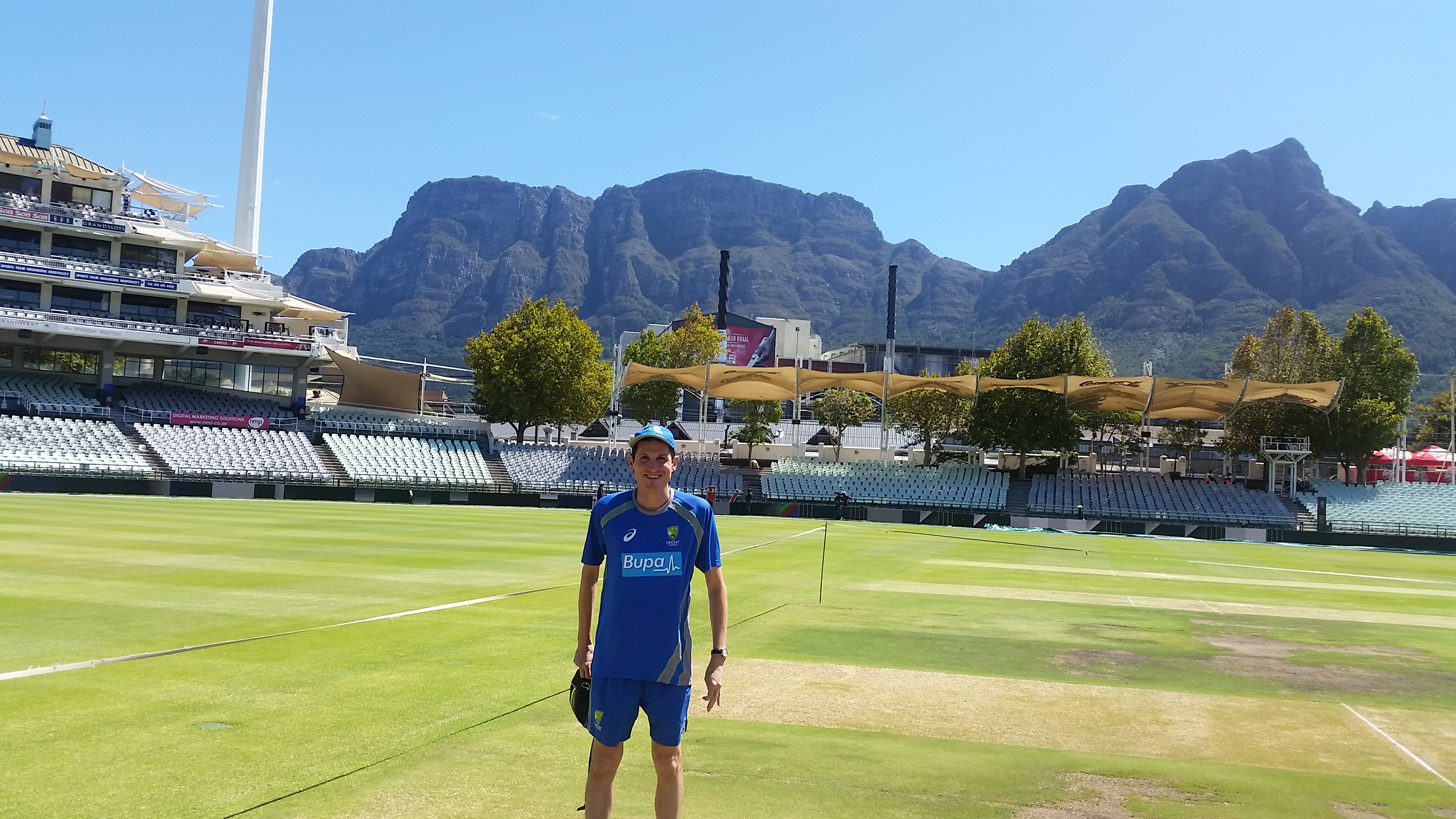 Dr John Orchard on tour working with the Australian cricket team in South Africa 2016